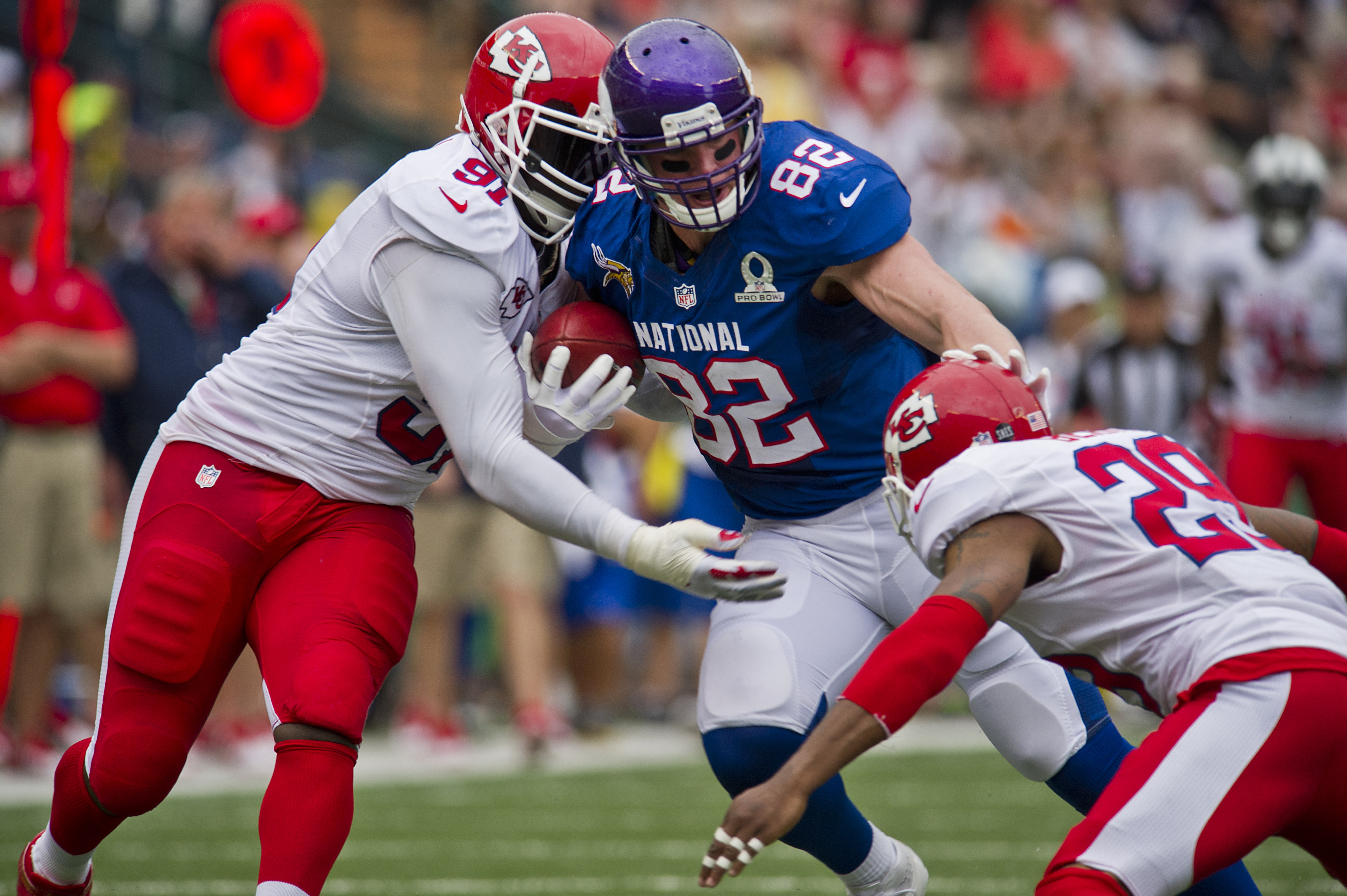 Minnesota Vikings TE Kyle Rudolph at the 2013 Pro Bowl